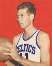 Professional basketball player Chuck Halbert